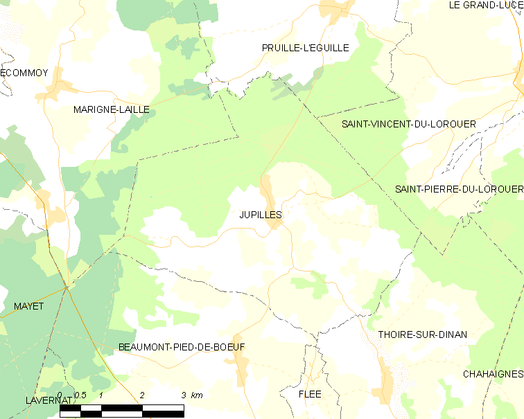 Map of French municipality